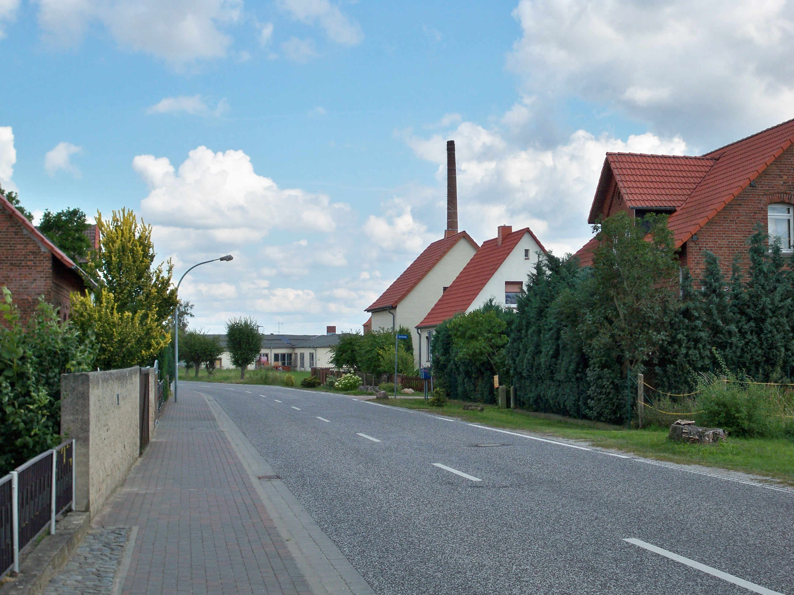 Döhren, Oebisfelde-Weferlingen, Saxony-Anhalt, view with chimney